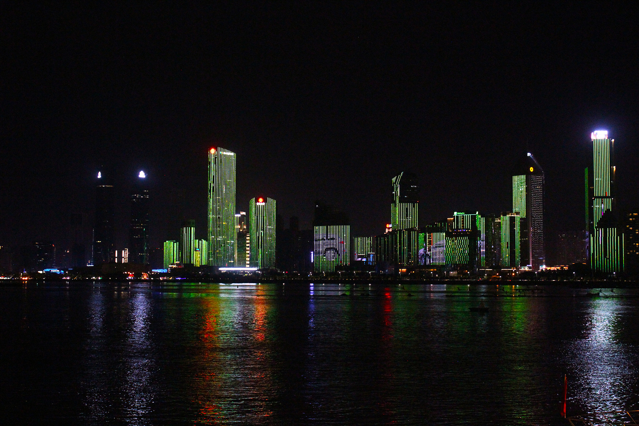 500px provided description: The geatest historical buildings in China, Nanchang From my album #PavilionOfPrinceTeng [#yellow ,#red ,#color ,#blue ,#architecture ,#temple ,#building ,#beautiful ,#colour ,#orange ,#culture ,#colors ,#photo ,#green ,#arch ,#castle ,#old town ,#palace ,#china ,#photography ,#colorful ,#colours ,#architectural ,#historical ,#colourful ,#color image ,#historical landmark ,#town square ,#10th century ,#Ihor Dudnyk]